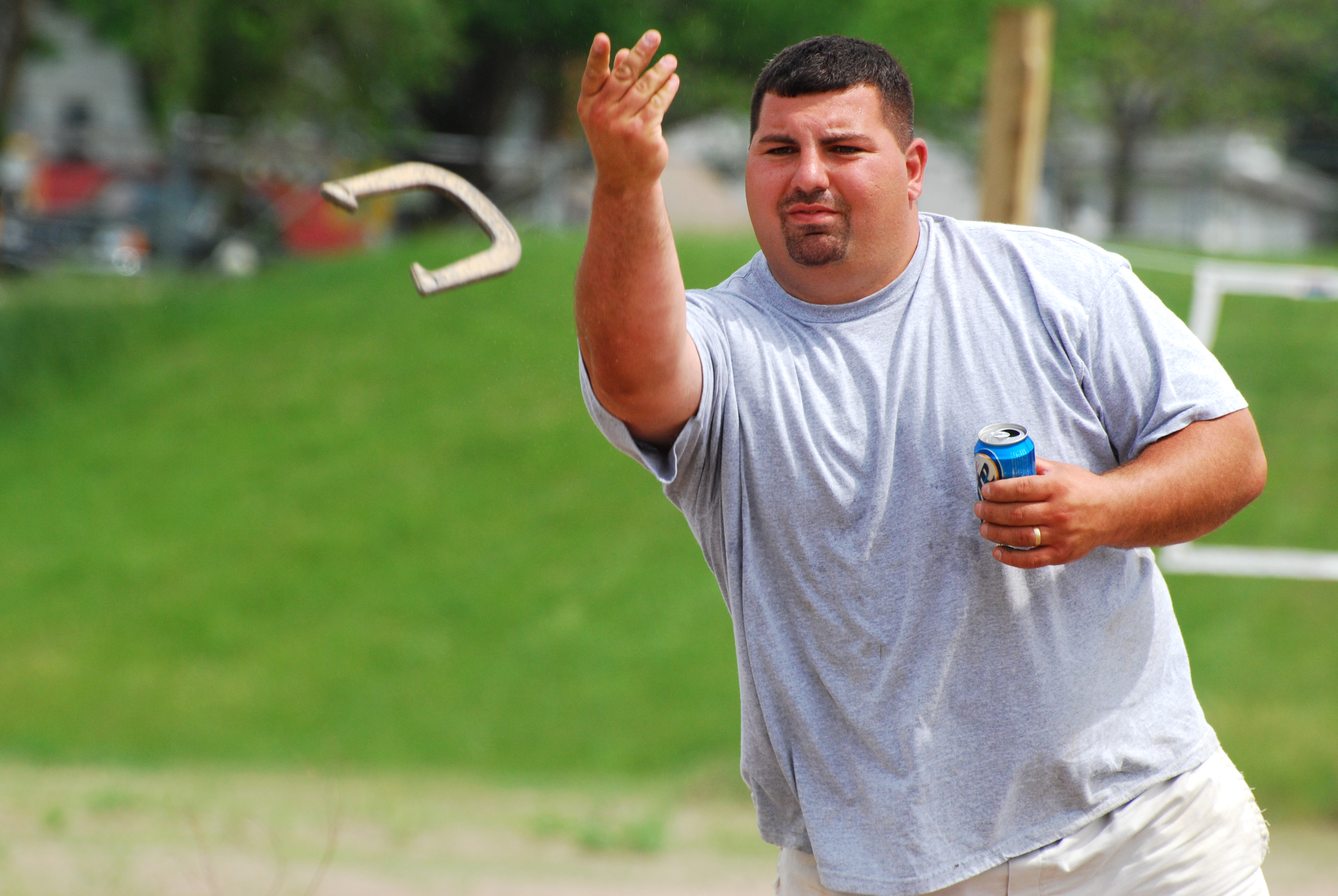 A man playing horseshoes in Lorain, Ohio